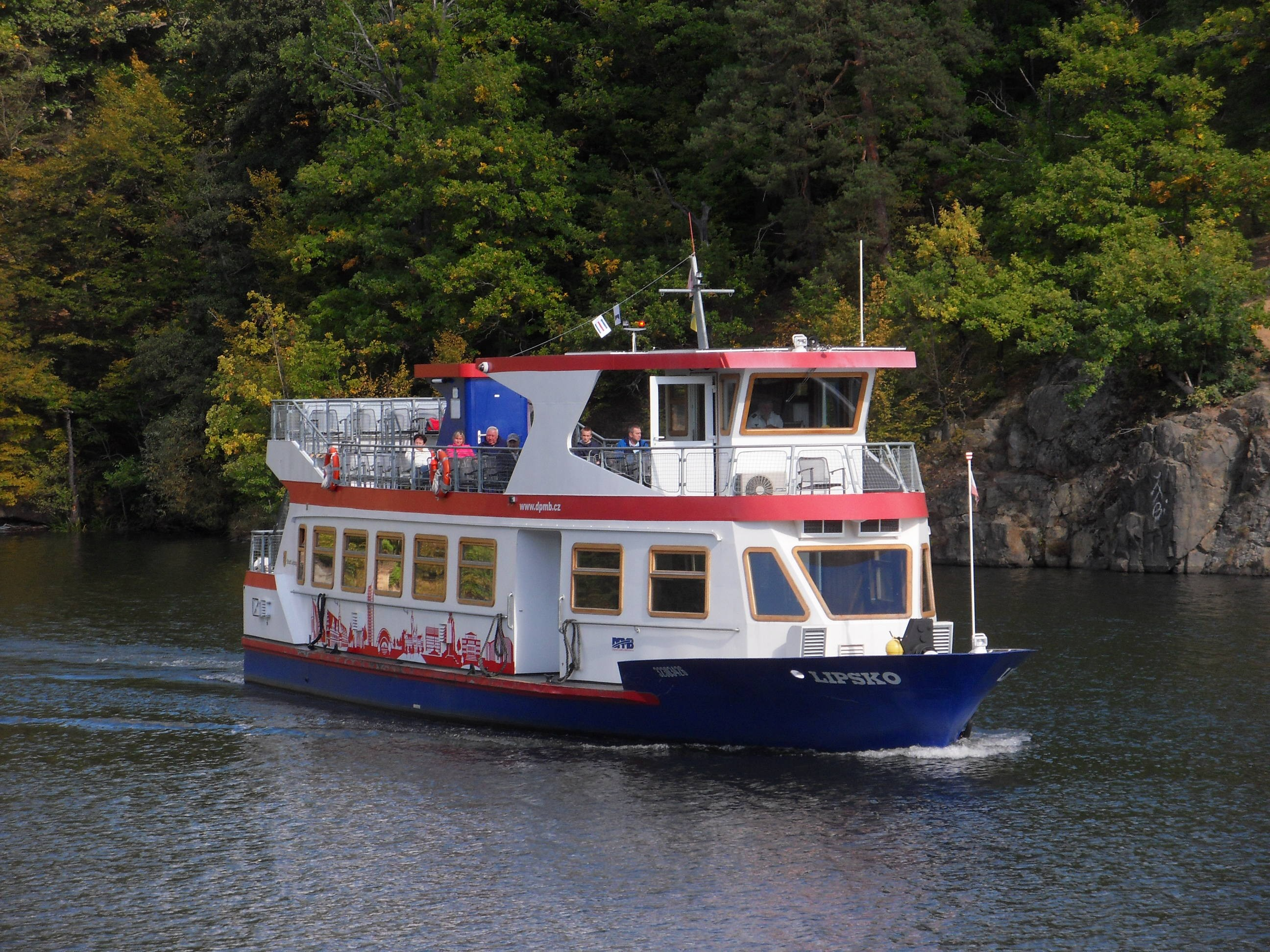 Lipsko ship of Dopravní podnik města Brna, Brno, Czech Republic - Google Maps - Google Earth